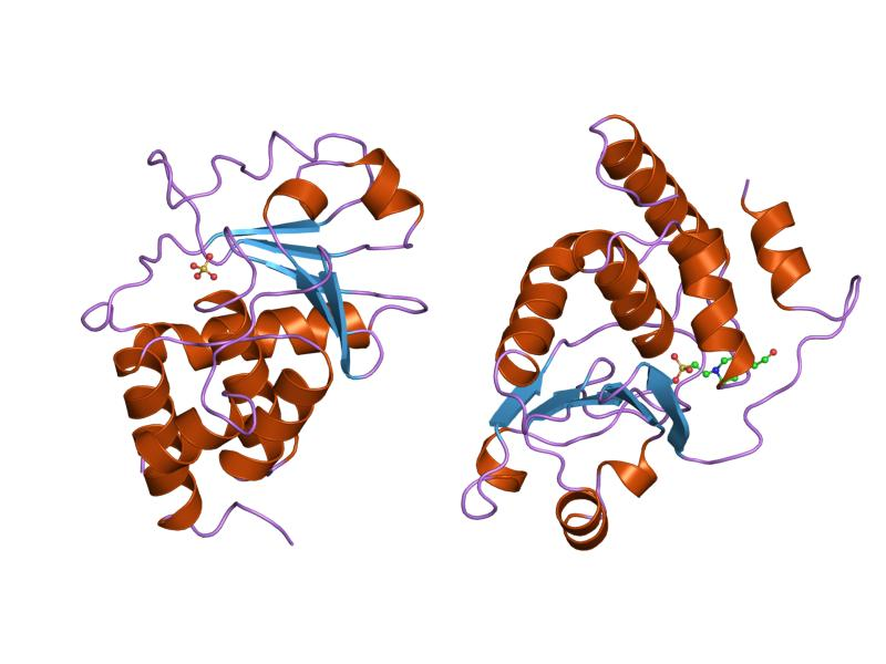 Cartoon representation of the molecular structure of protein registered with 1vhr code.